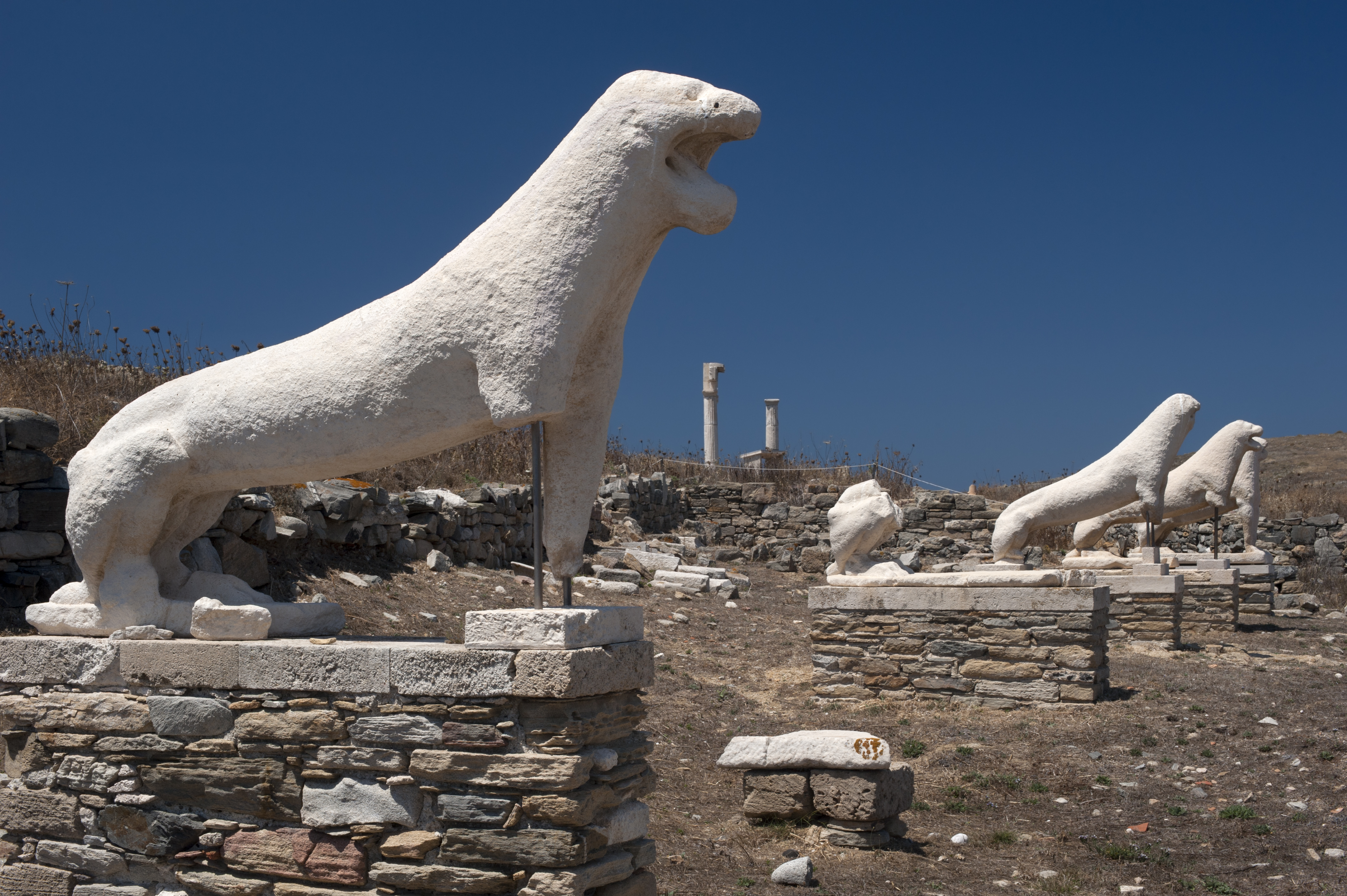 Terrace of the Lions, Delos island, Cyclades, Greece.